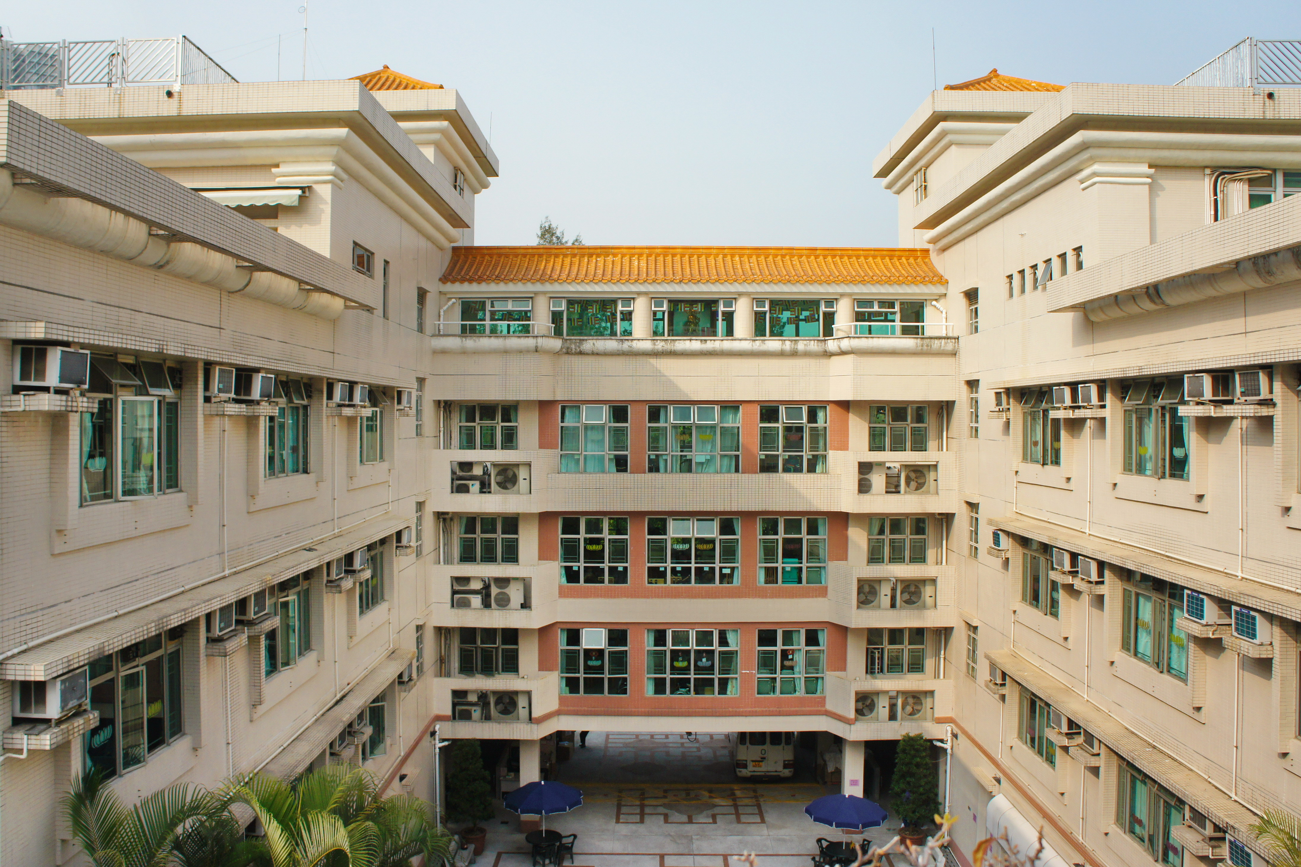 Heung Hoi Ching Kok Lin Association Buddhist Po Ching Home for the Aged Women, 8 Chi Fuk Circuit, Fanling, New Territories, Hong Kong.